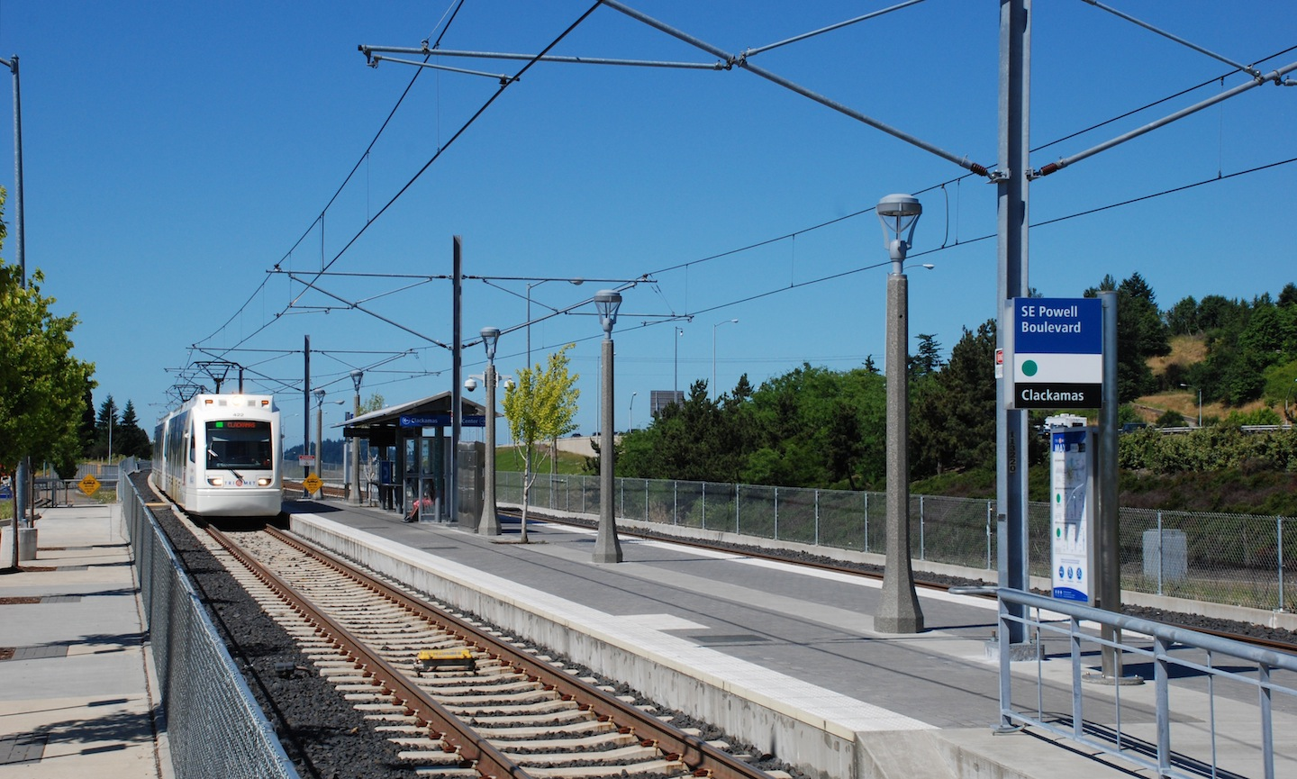 The SE Powell Blvd MAX station, on the MAX Green Line, with a southbound train led by car 422 arriving.